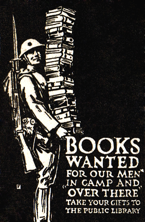 'Books wanted for our men in camp and "over there" Take your gifts to the Public Library.'